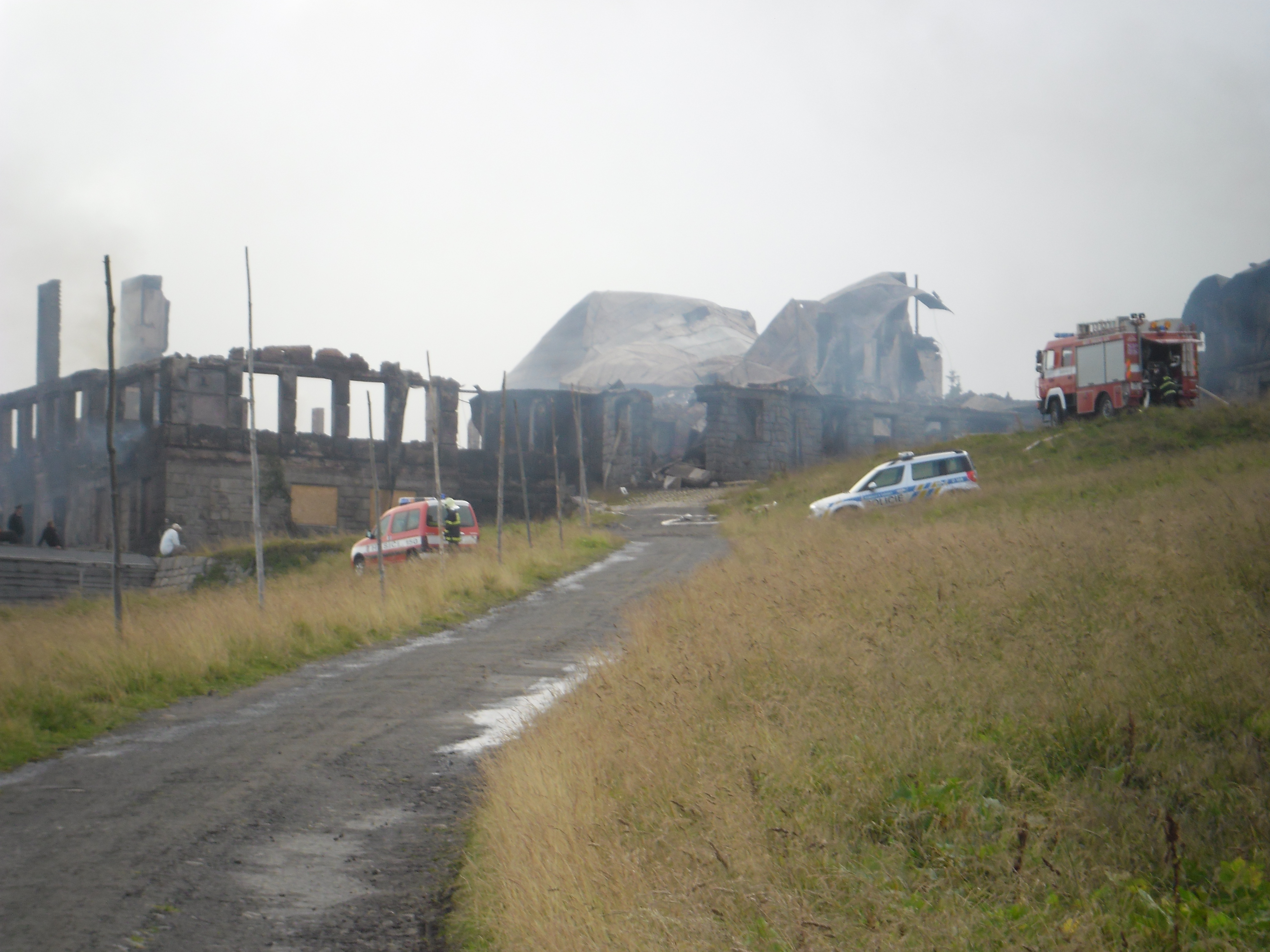 Petrova bouda after burning out